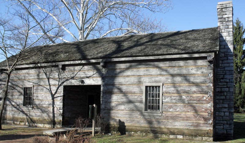 A replica of the first jail constructed in Kentucky. It is located in Constitution Square State Historic Site in Danville, Kentucky.